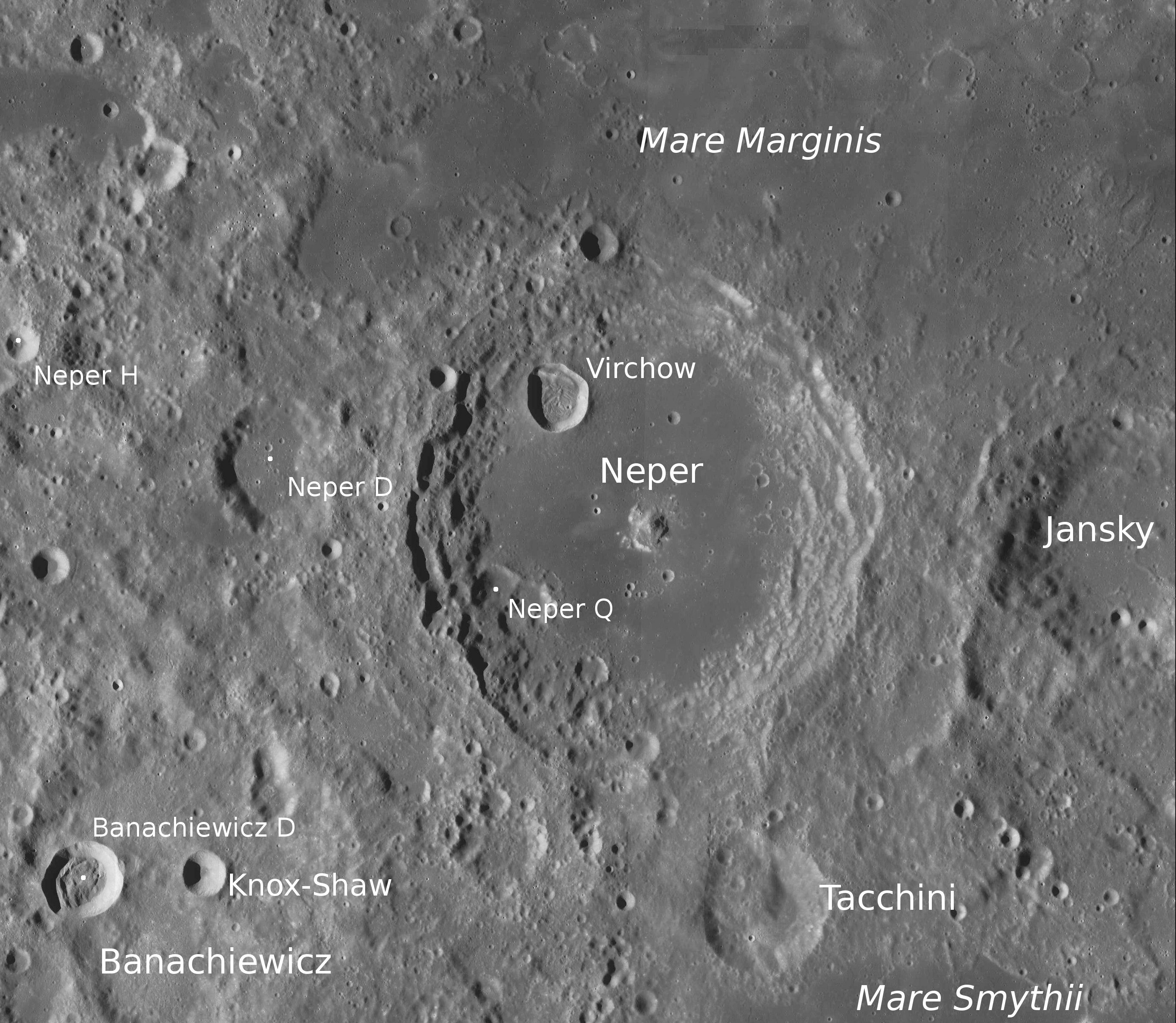 Crater Neper with Mare Marginis and Mare Smythii (detail of LRO - WAC global moon mosaic; Mercator projection)